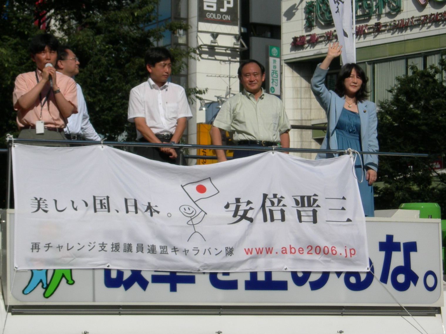 Liberal Democratic Party (Japan) leadership election, 2006. Satsuki Katayama, Yoshihide Suga, Ichita Yamamoto etc. in Shibuya, Tokyo.